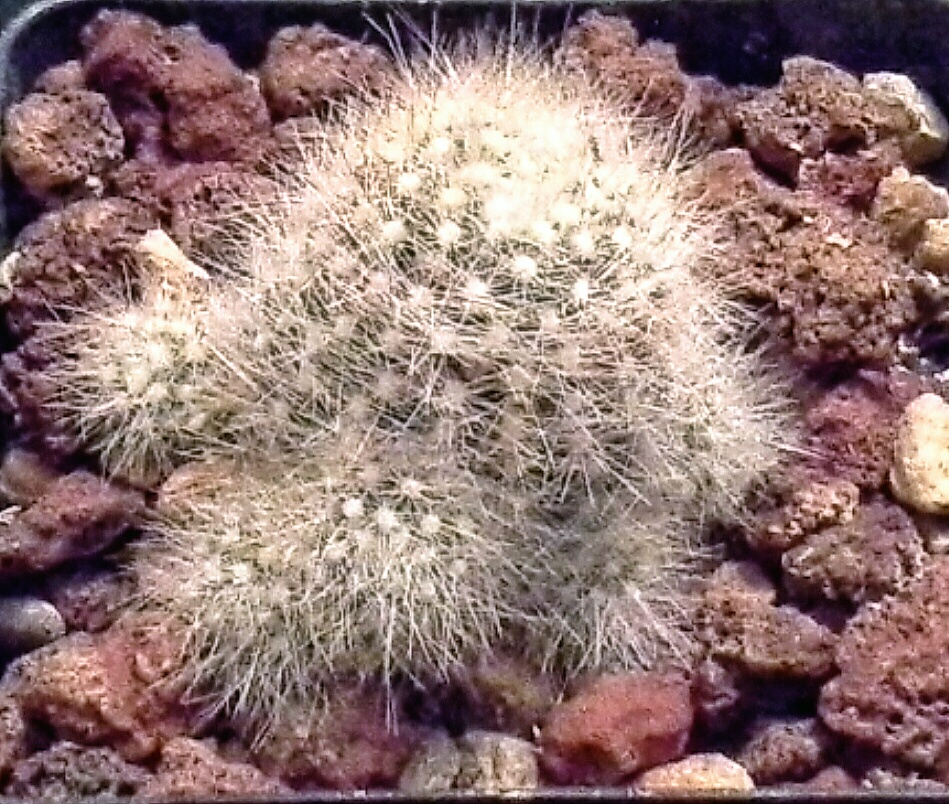 Mamillaria schwarzii. Young specimen